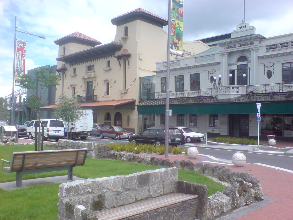 The Hawkes Bay Opera House Complex.